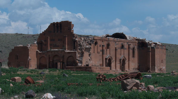 The basilica of Yererouk, one of the earliest Christian monuments in Armenia, believed to be from the 4th or 5th century.